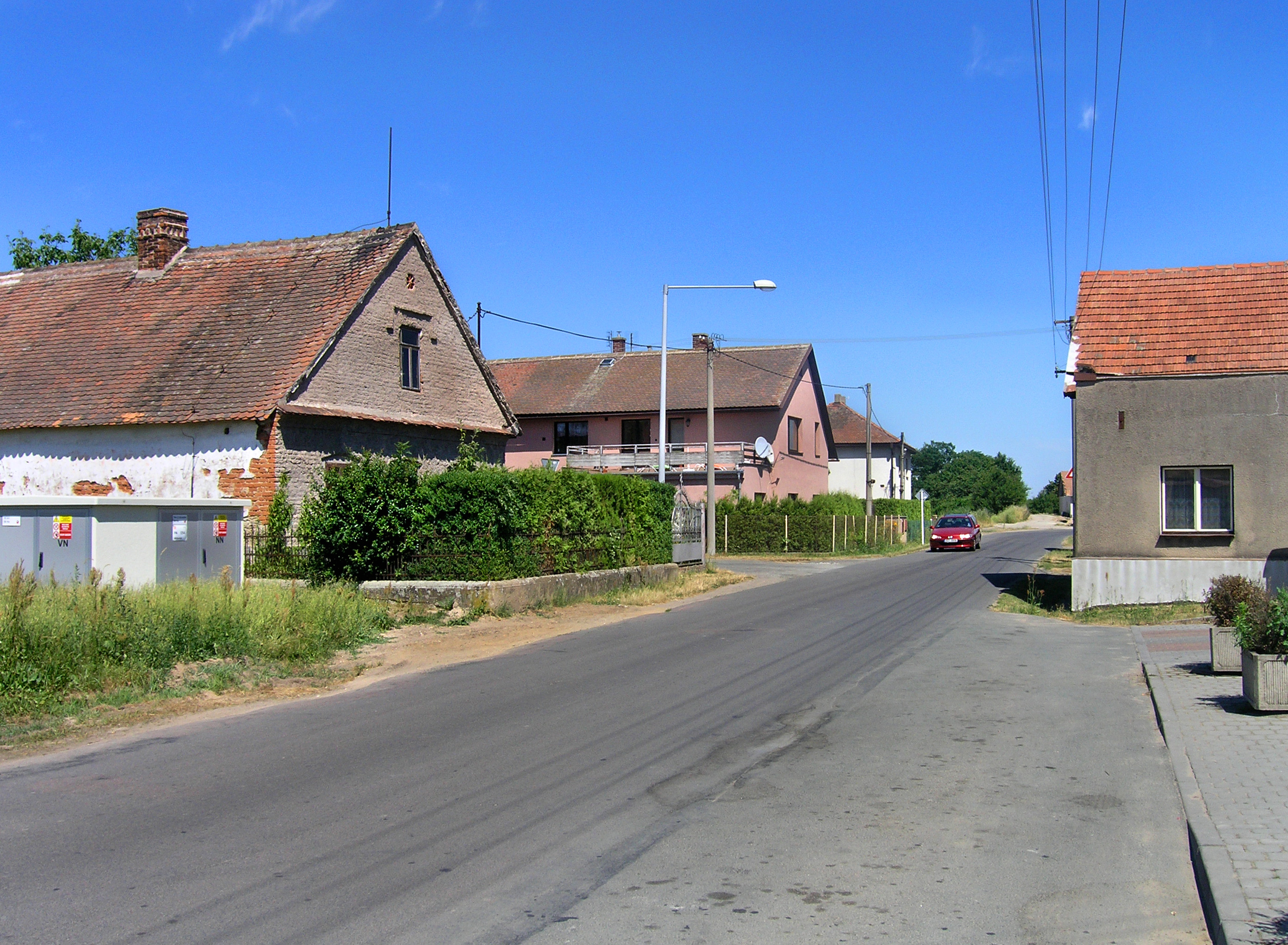 Pardubická street in Srnojedy, Czech Republic